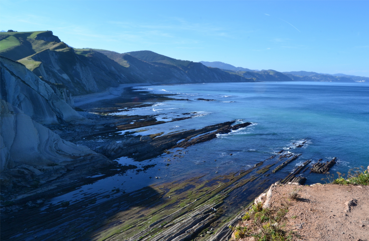 Basque Coast Geopark-Flysch and Algorri beach. Zumaia, Gipuzkoa, Basque Country.